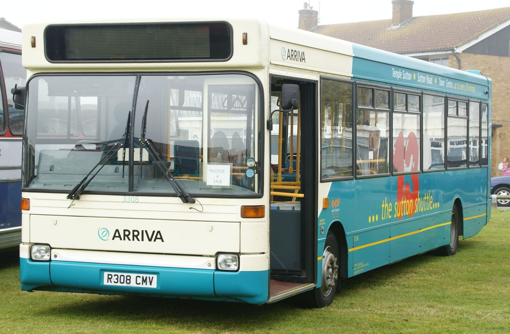 Arriva Southend 3308 (R308 CMV), a Dennis Dart SLF/Plaxton Pointer, seen at the 2008 Canvey Island bus rally - on 12 October 2008. The bus wears "the sutton shuttle" branding for service 13 between Temple Sutton and Southend town centre. The branding has been removed since the photo was taken. The bus was new to Guildford & West Surrey in October 1997 as their DSL108. While a number of R--- CMV Darts remain with Arriva Guildford & West Surrey at Guildford depot, many, like 3308, were spread around Arriva Southern Counties.